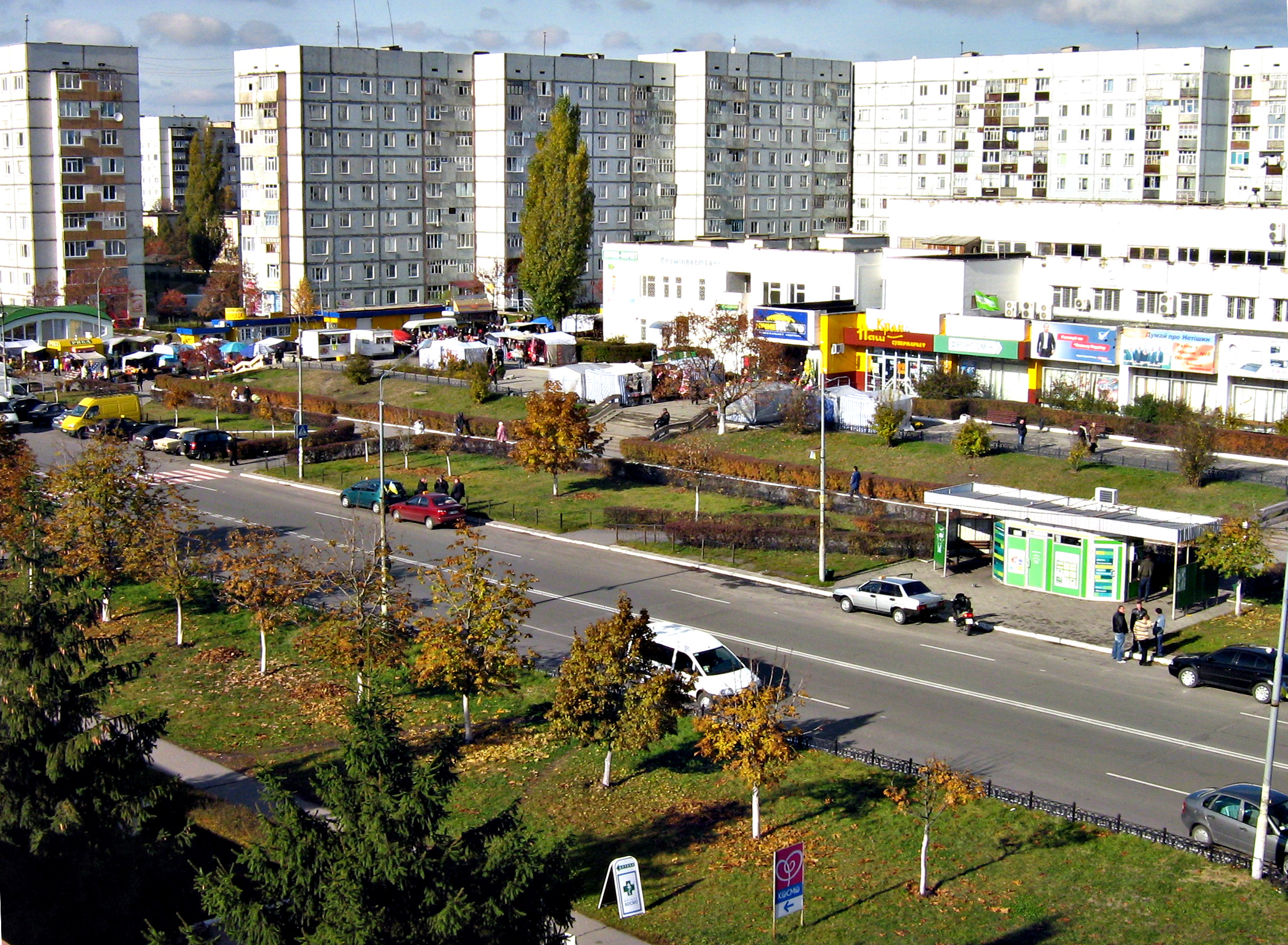 Netishyn. Khmelnitsky oblast. Ukraine. 2010 year.